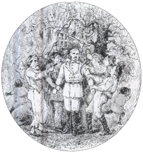 An 1863 illustration of John Decker, fire chief of the New York Volunteer Fire Brigade, being attacked by rioters during the New York Draft Riots. The image appears in "Historic Fires of New York City" (2005) by Glenn P. Corbett and Donald J. Cannon. Uploaded per request at WP:IFU.